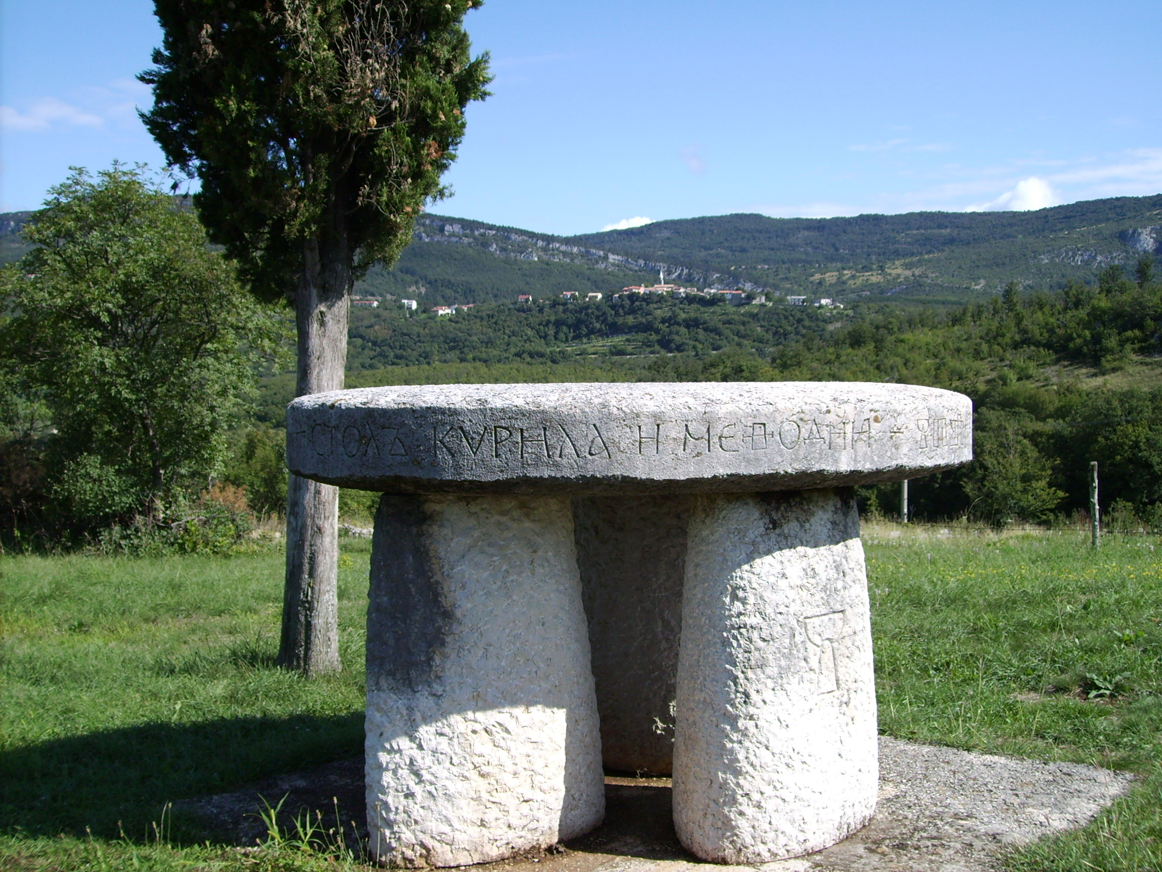 Table of Saint Cyril and Methodius at the Glagolitic Avenue near Hum, Croatia. In the background you can see the village Roč.